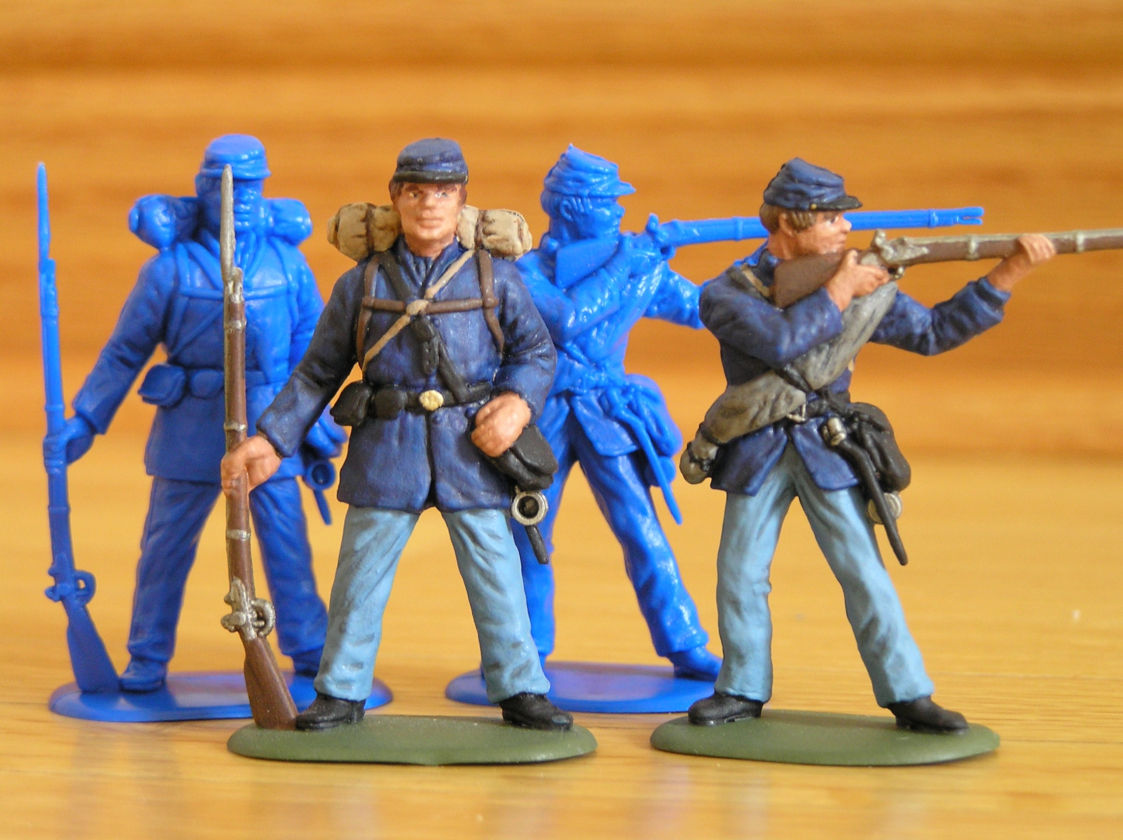 54mm plastic figures of the American Civil War by Accurate. Painting and photo by J. Corey Butler, 2006.